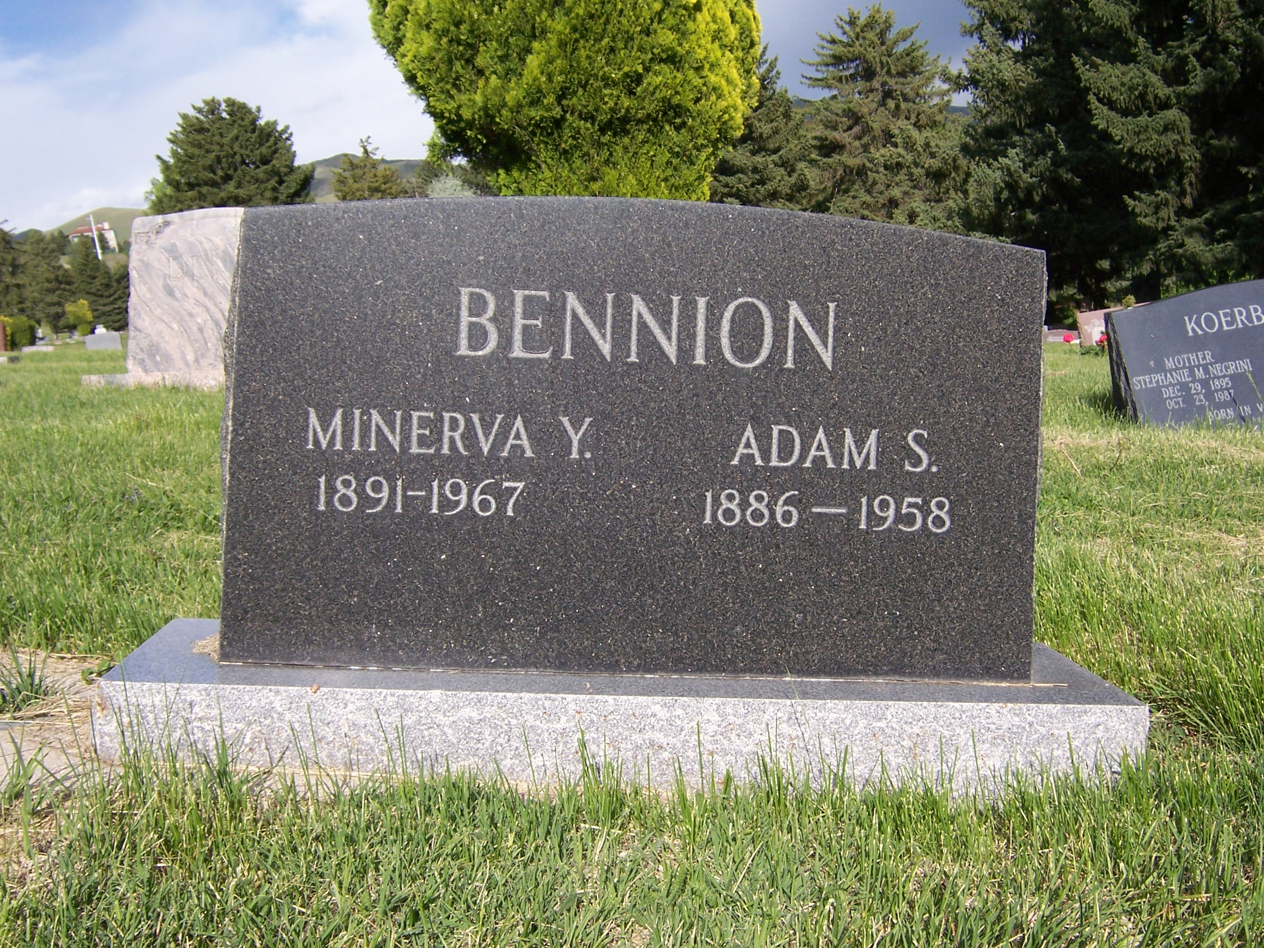 Grave Marker of Adam S. Bennion.